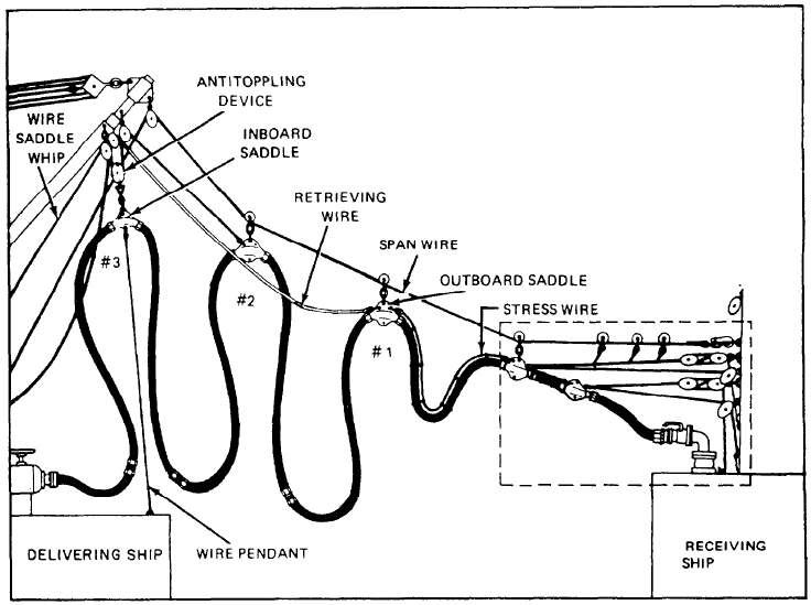 Spanwire fuelling rig from US Navy Seaman manual